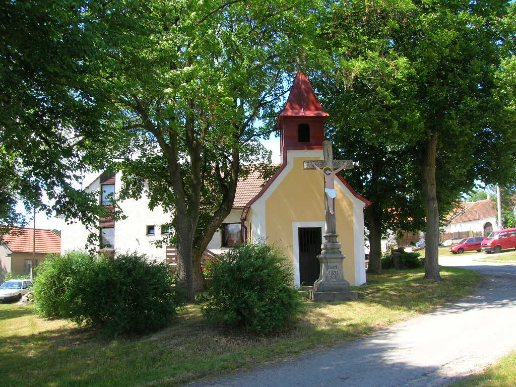 Třebíč-Pocoucov. West part of village square with a chapel of St. Peter and St. Paul.